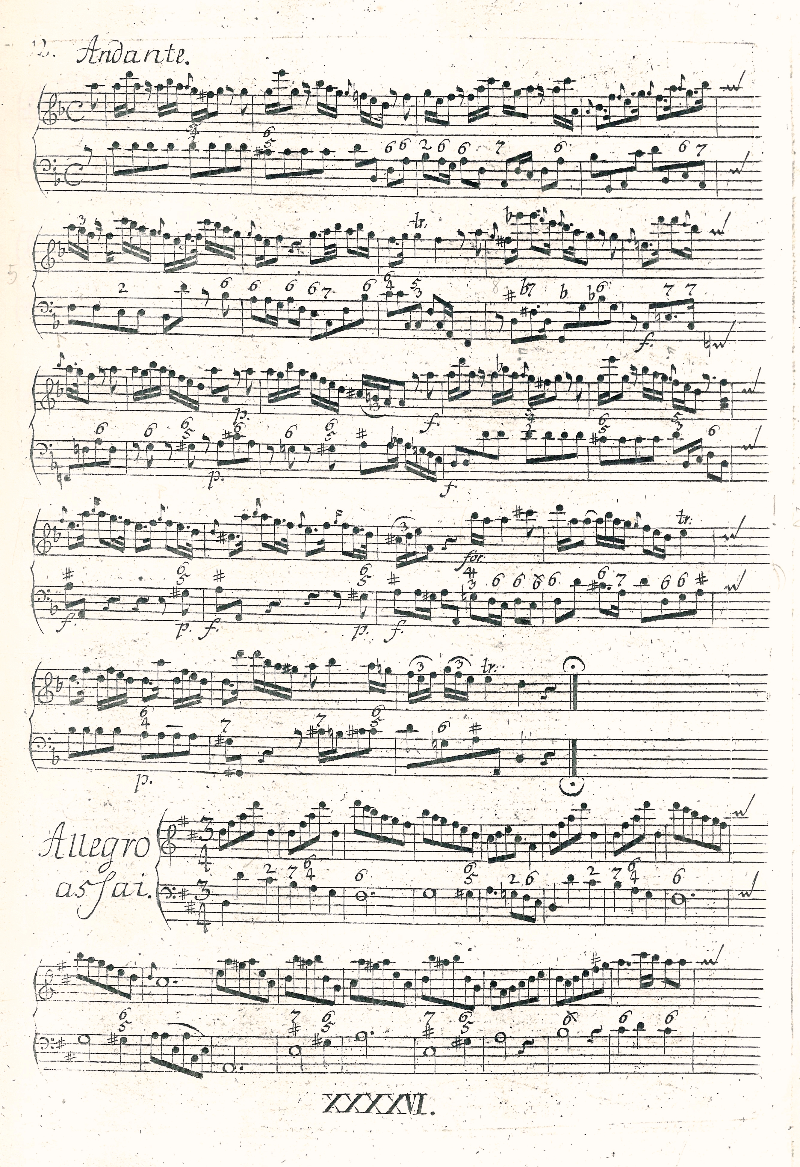 Anna Bon di Venezia: Flute Sonate IV, Andante and Allegro